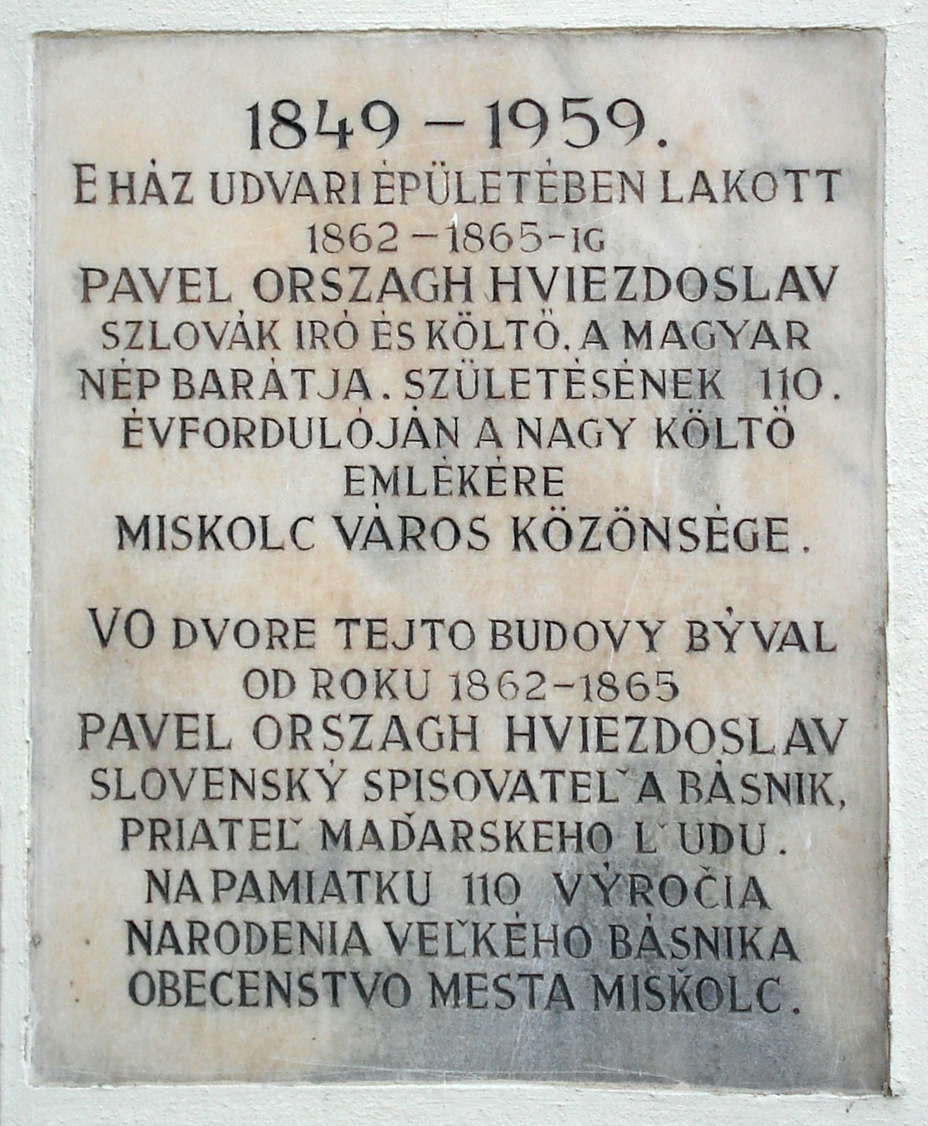 16 Széchenyi Street, Miskolc, Hungary